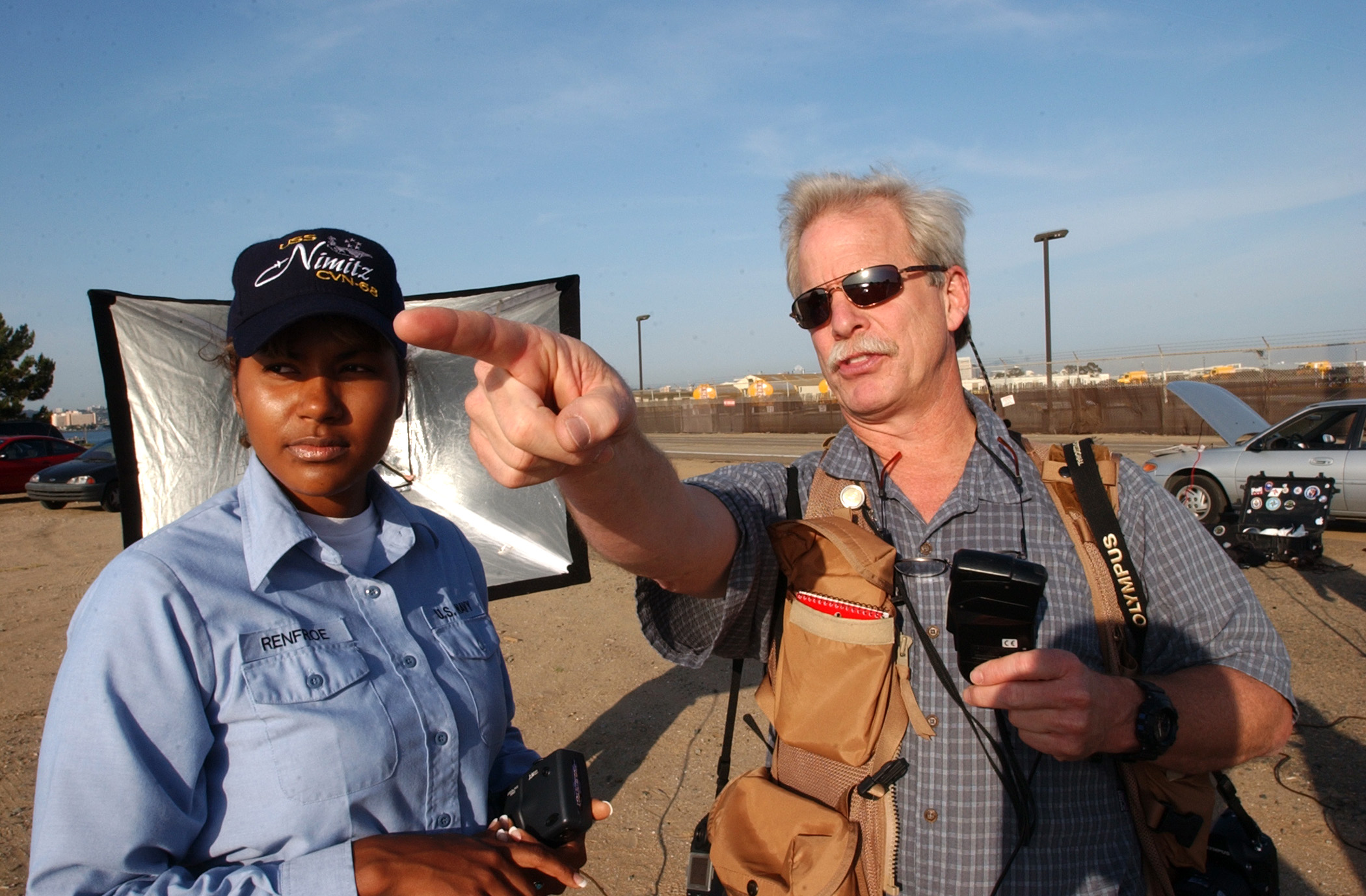 San Diego, Calif. (Apr. 28, 2004) - Photographer's Mate Airman Shannon Renfroe, assigned to USS Nimitz (CVN 68), receives instruction from Mr. Jay Dickman, a National Geographic and Pulitzer Prize winning photographer during the Military Photographic Workshop held at Fleet Combat Camera Group Pacific in San Diego, Calif. The Military Photographer's Workshop is a weeklong course of instruction allowing Navy photographers to get personal mentorship from an industry acclaimed civilian photographer in the art of photojournalism. U.S. Navy photo by Photographer's Mate 1st Class Arlo K. Abrahamson. (RELEASED)